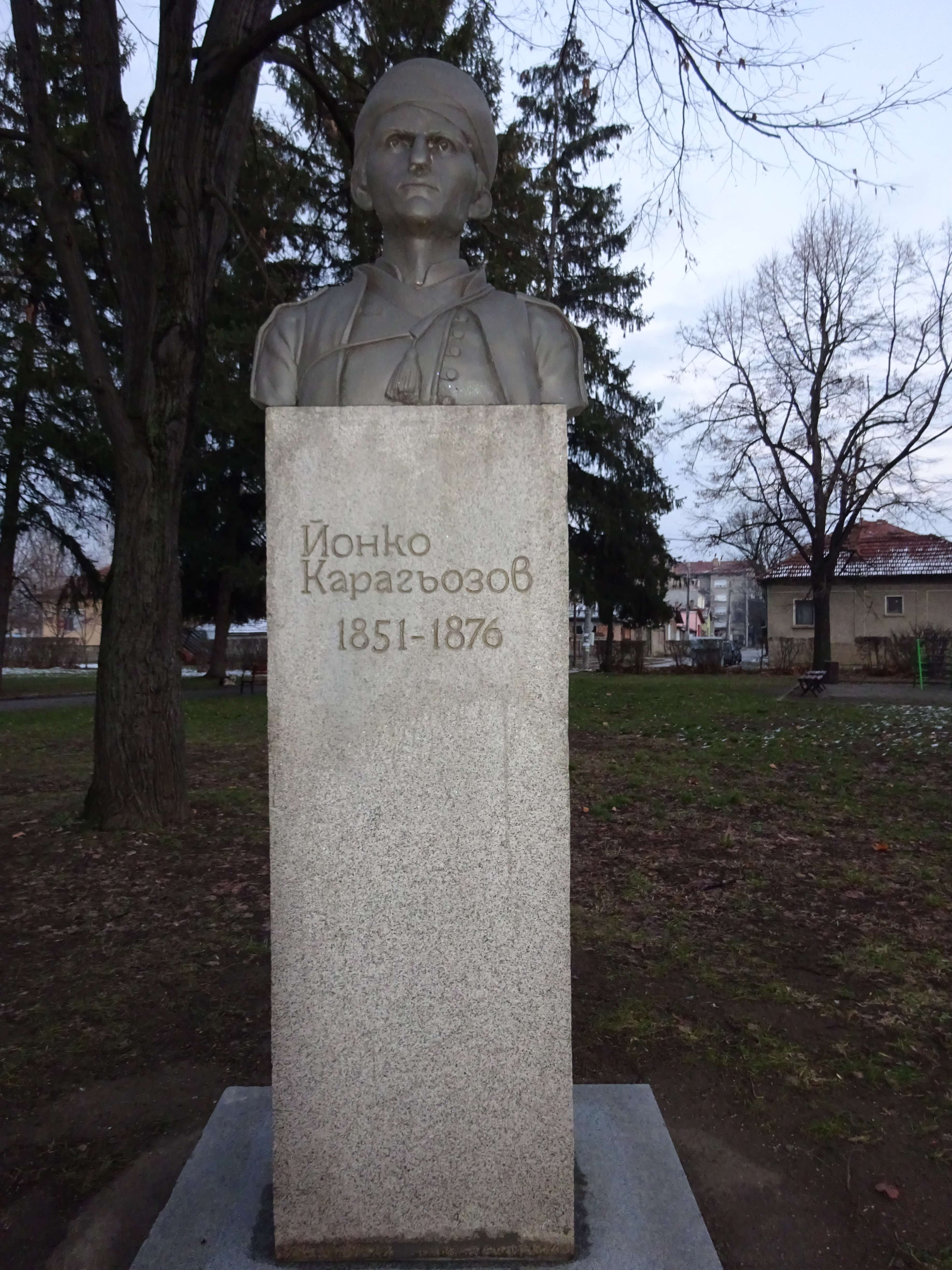 Паметник на Йонко Карагьозов, Севлиево